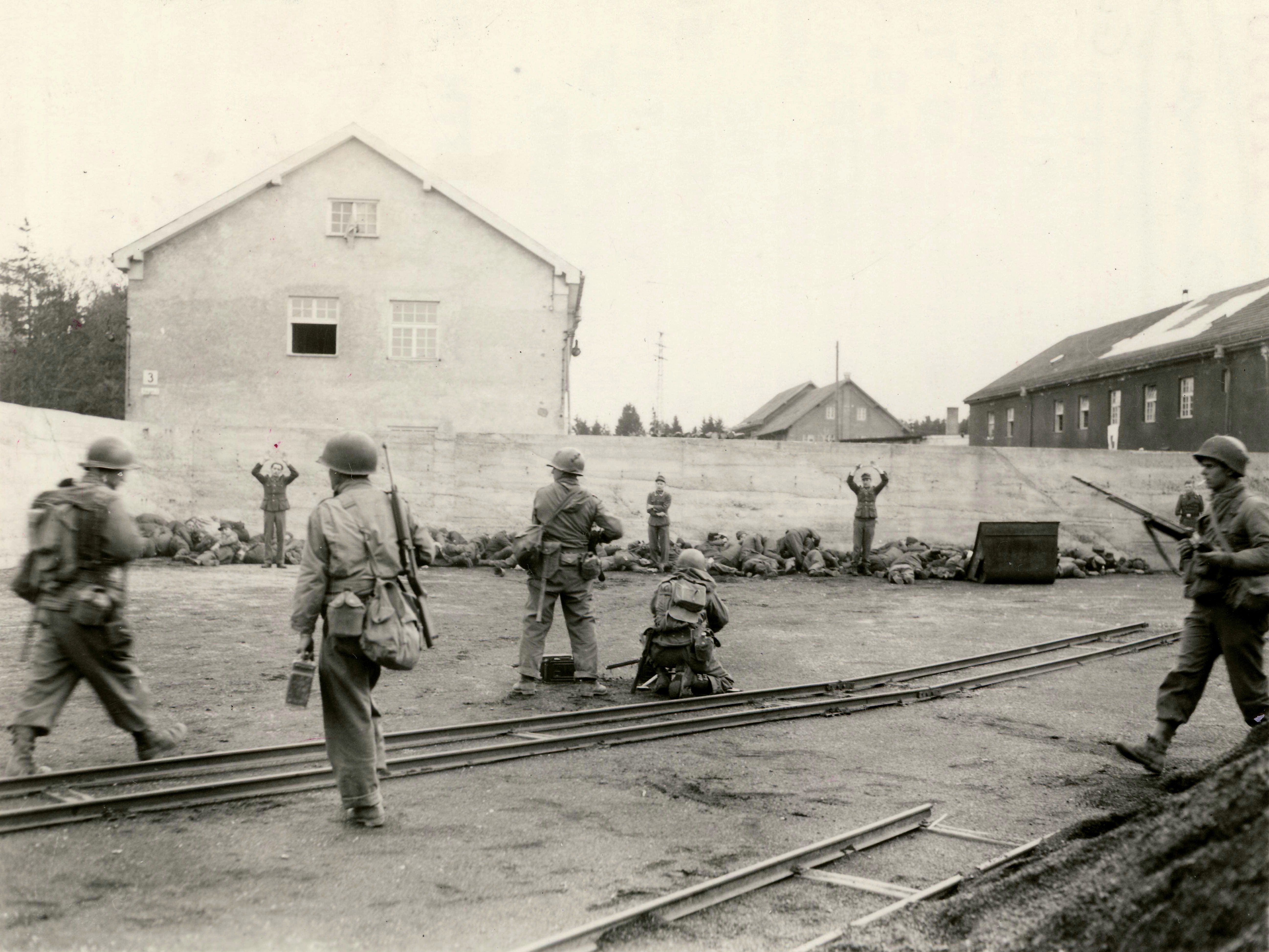 Dachau, Bavaria, Germany: This picture shows an execution of SS troops in a coalyard in the area of Dachau concentration camp during the liberation of the camp. III-SC 208765, Credit NARA.